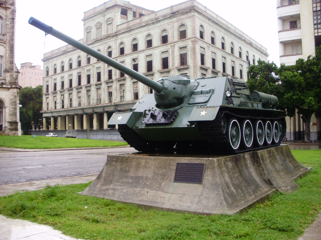 Cuban SU-100 Model 1969 tank destroyer at the Museum of the Revolution, Cuba.